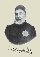 Topal Sherif Osman Pasha, the Ottoman governor of Bosnia (1861–1869)